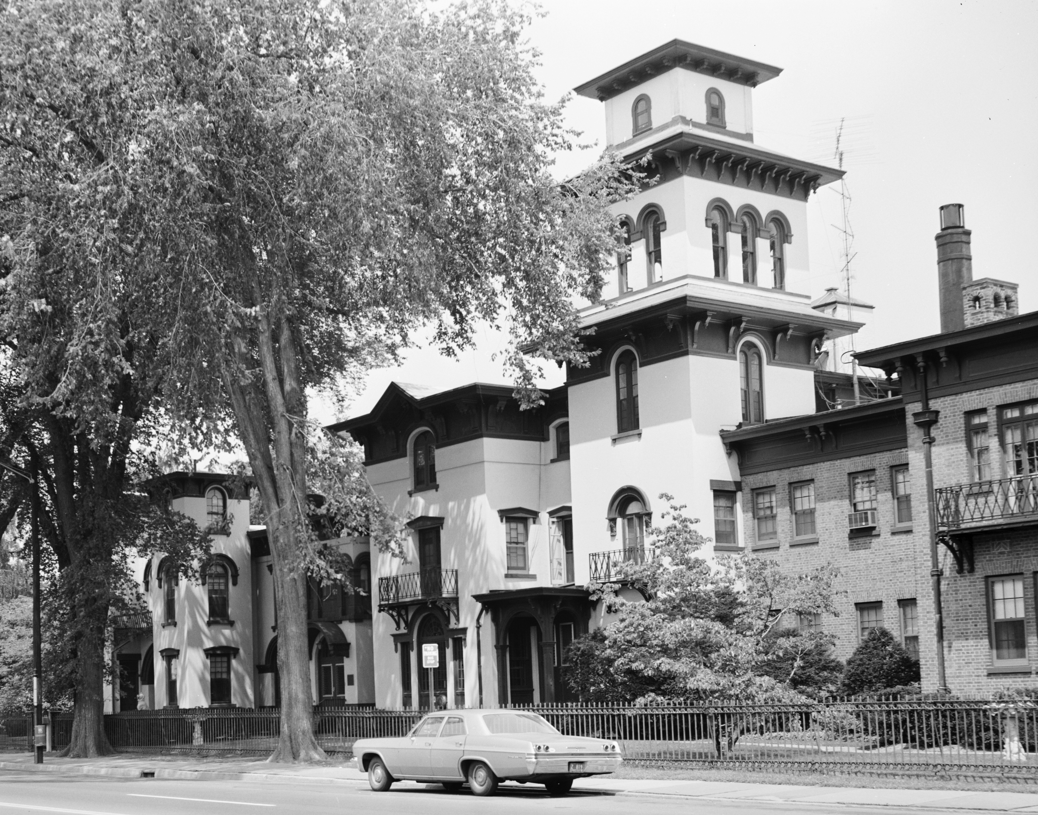 Photograph of 'Armsmear' (Samuel Colt's House) — in Hartford, Connecticut. This is an oblique view of the front facade. 1967 photo from the HABS—Historic American Buildings Survey of Connecticut